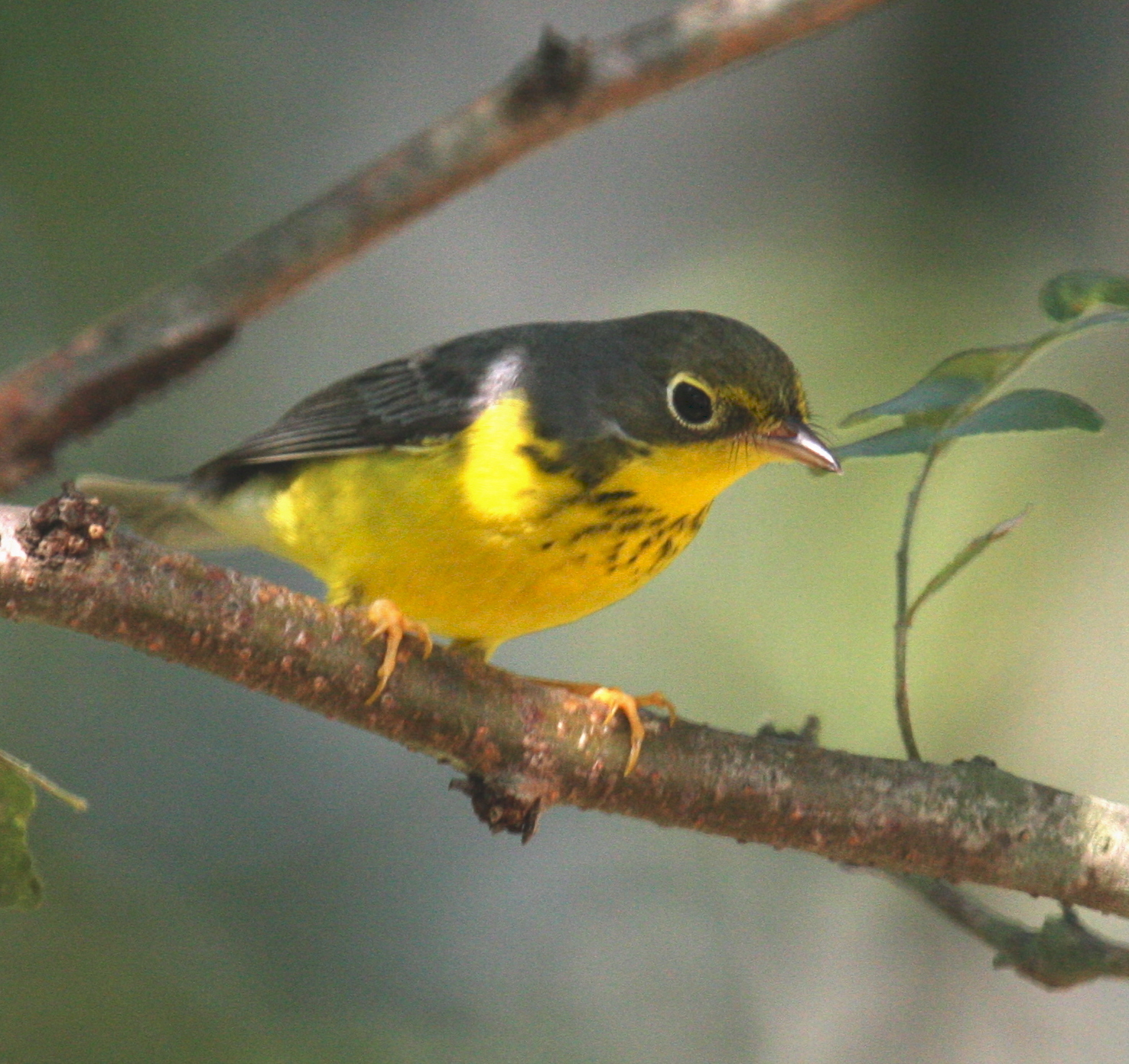 Canada Warbler on Bough